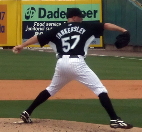 Pitching at a spring training game vs the Baltimore Orioles on 2/29/08. I took this picture. 23:56, 29 February 2008 . . Rabbethan . . 454×422 (62 KB)